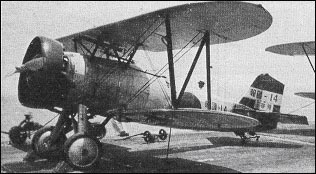 Nakajima A2N